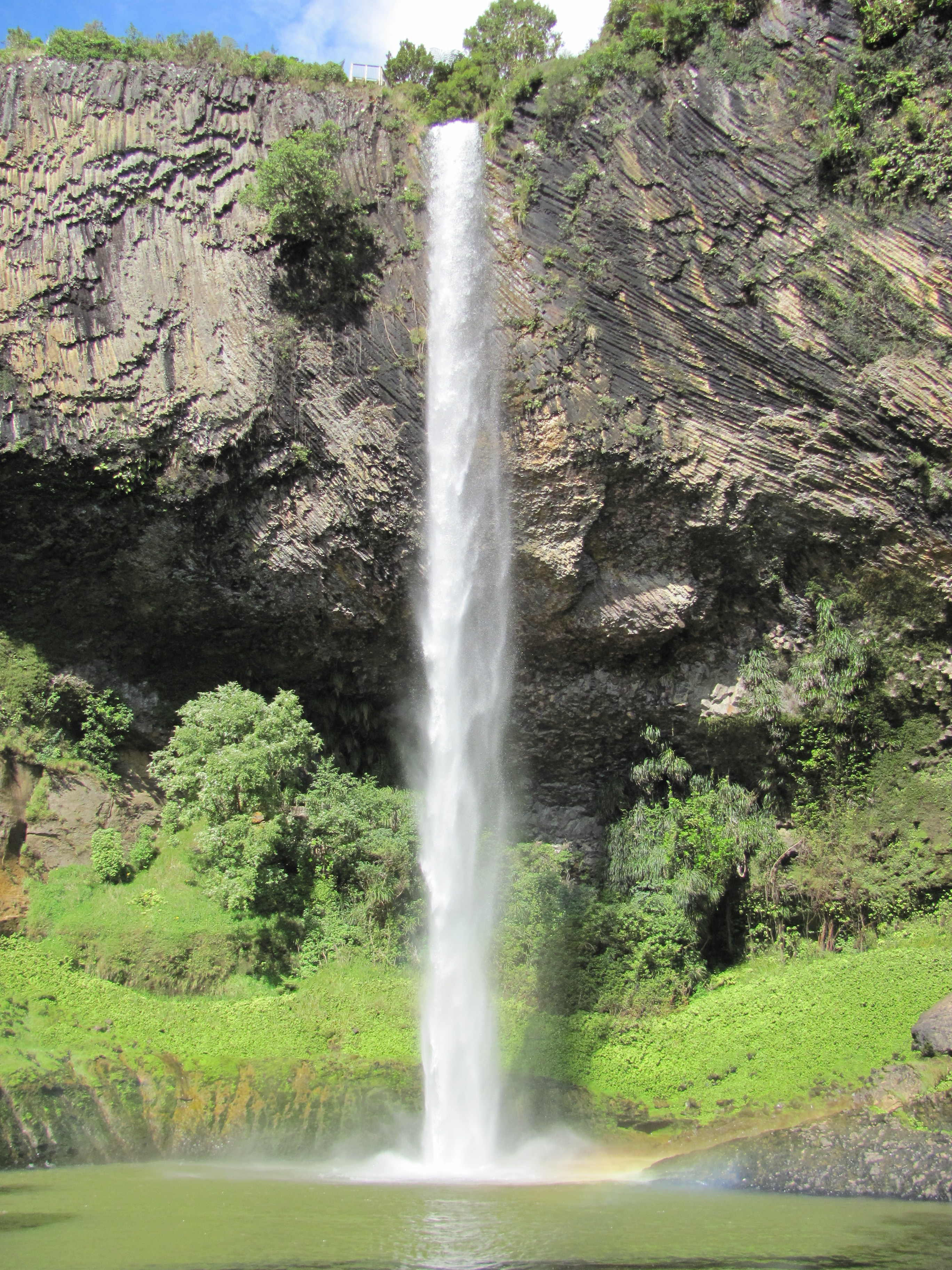 Bridal Veil Falls, NZ